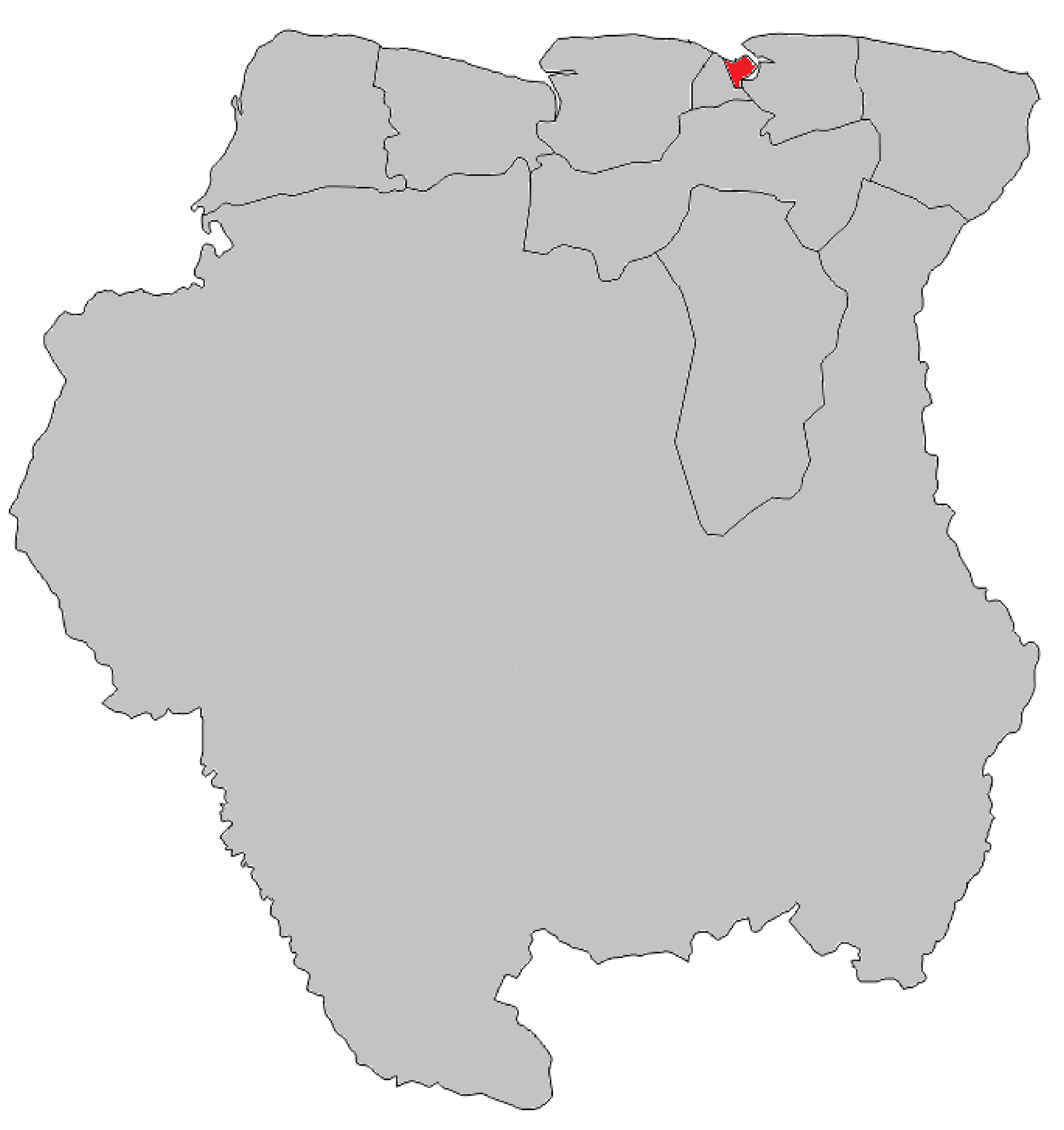 Dengue epidemic 2019-2020 in the Republic of Suriname